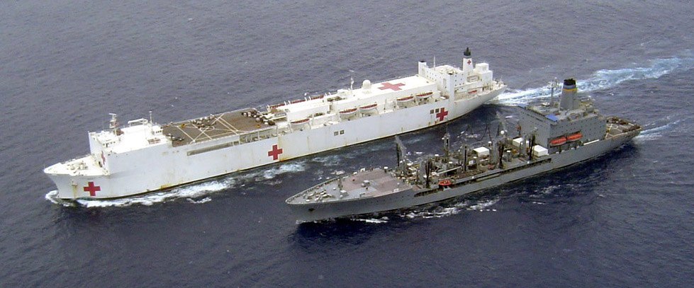 An aerial view showing the US Navy (USN) Military Sealift Command (MSC) Hospital Ship, USNS Mercy (T-AH-19) (center), conducting Replenishment At Sea (RAS) operations with the USN MSC Henry J. Kaiser Class Oiler USNS Tippecanoe (T-AO-199), while underway in the Indian Ocean, to support Operation Unified Assistance, the humanitarian operation effort in response to the Tsunami that struck Southeast Asia.